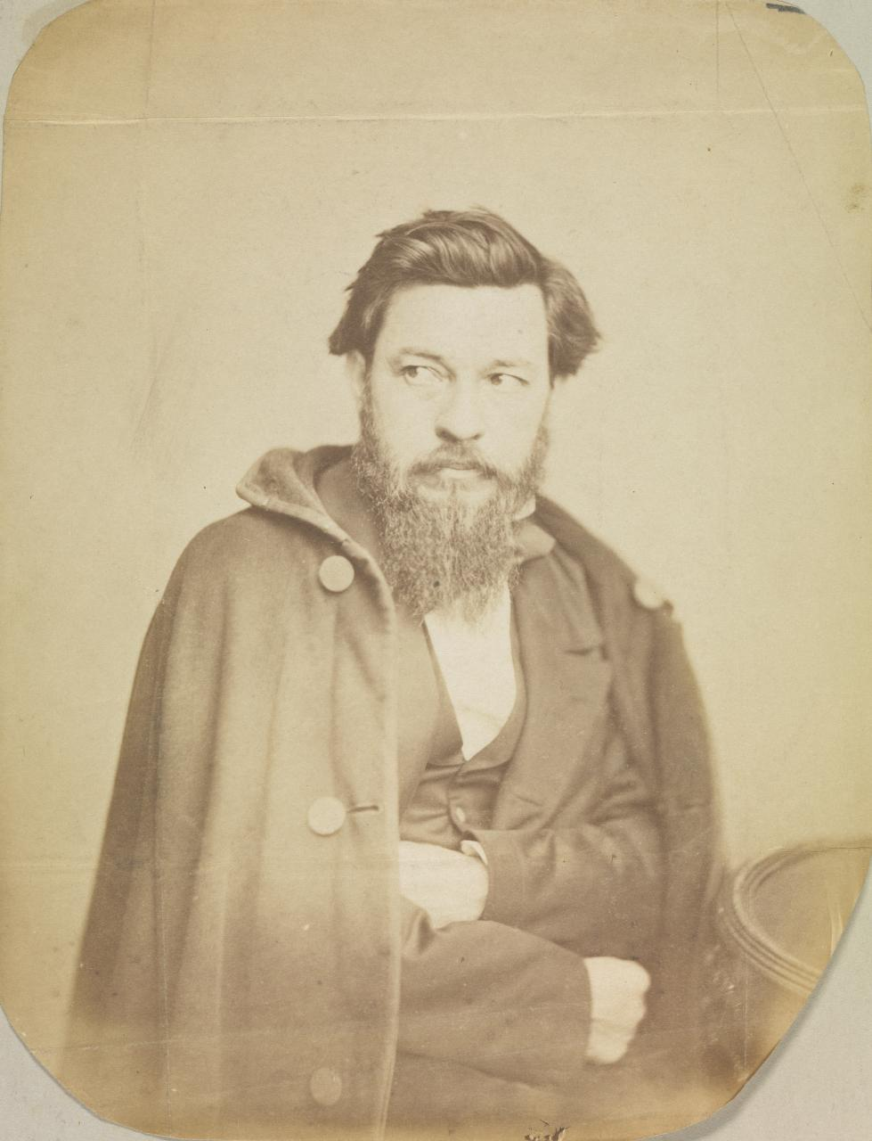 Self-portrait of zoologist William Blandowski, 1860. Source: National Gallery of Victoria, Melbourne Native nameNational Gallery of VictoriaLocationNGV International: 180 St. Kilda Road Melbourne Victoria 3006 Australia The Ian Potter Centre: NGV Australia: Federation Square Melbourne Victoria 3000 AustraliaCoordinates37° 49′ 21″ S, 144° 58′ 07″ E Established1861Website control : Q1464509 VIAF: 149601682 ISNI: 0000 0001 2182 4904 ULAN: 500217629 LCCN: n80050339 NLA: 35982090 WorldCat